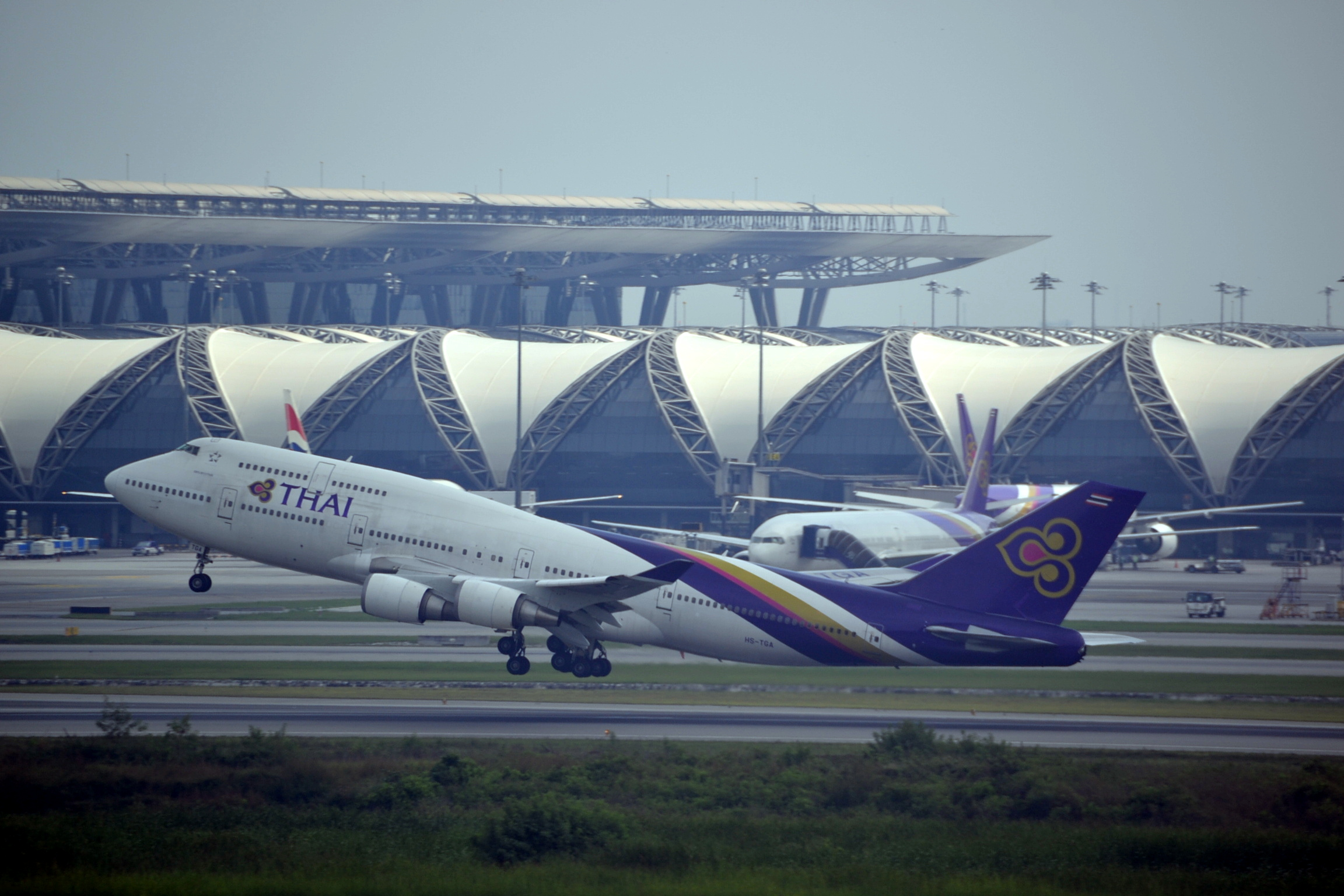 Boeing 747/4 of Thai Airways International departing rwy.01L at Bangkok- BKK, 30/10/14.